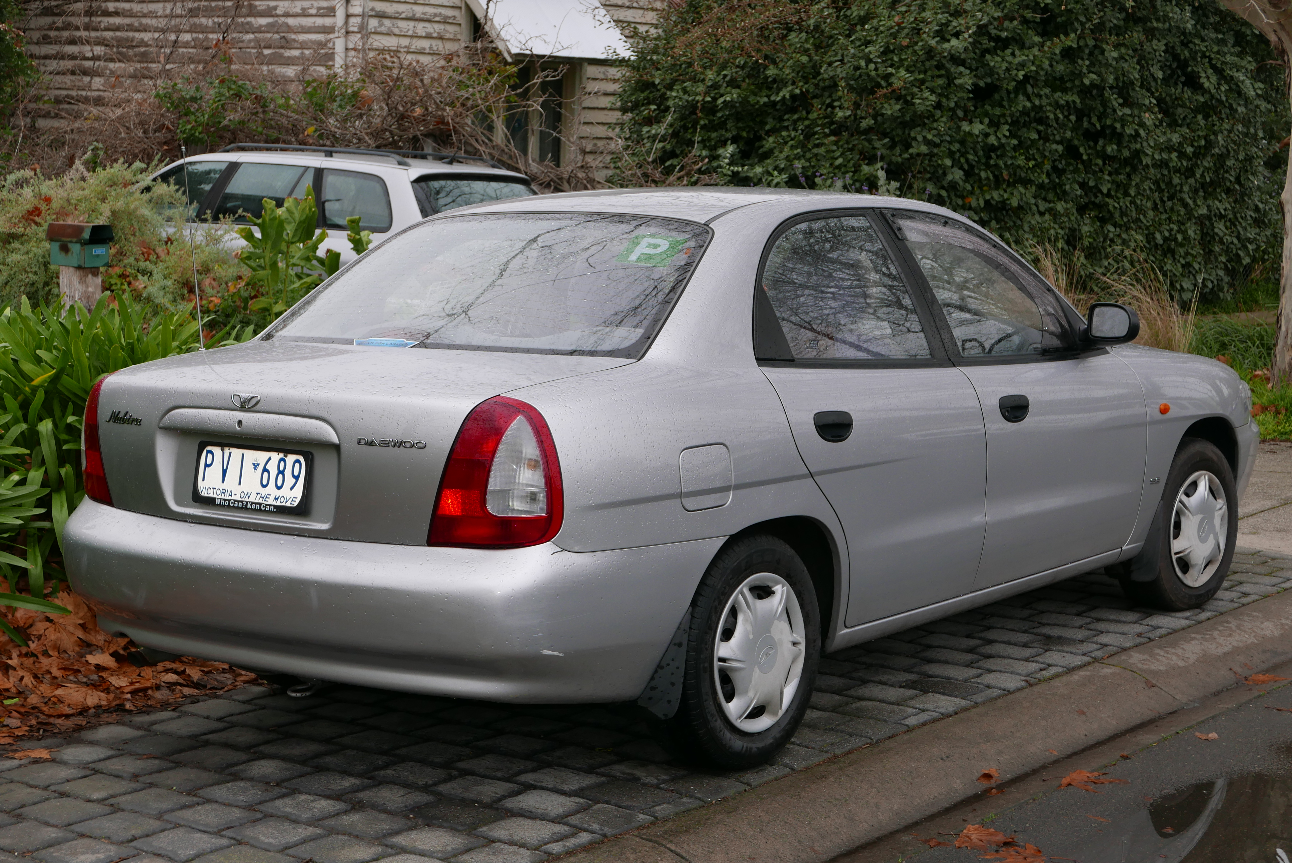 1999 Daewoo Nubira (J100) SE sedan. Photographed in Alphington, Victoria, Australia. Vehicle registration enquiry results Jurisdiction Victoria Registration PVI689 Chassis code KLAJA696EXK256008 Engine code A16DMS136004B Compliance date 1999-09 Year of manufacture 1999